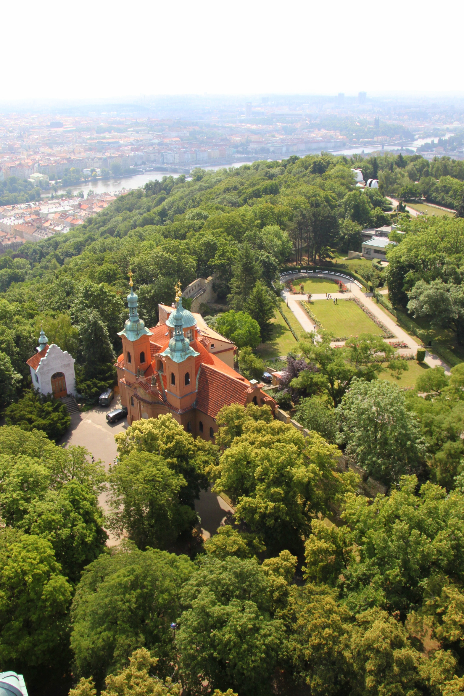 Prague 1, Czech Republic